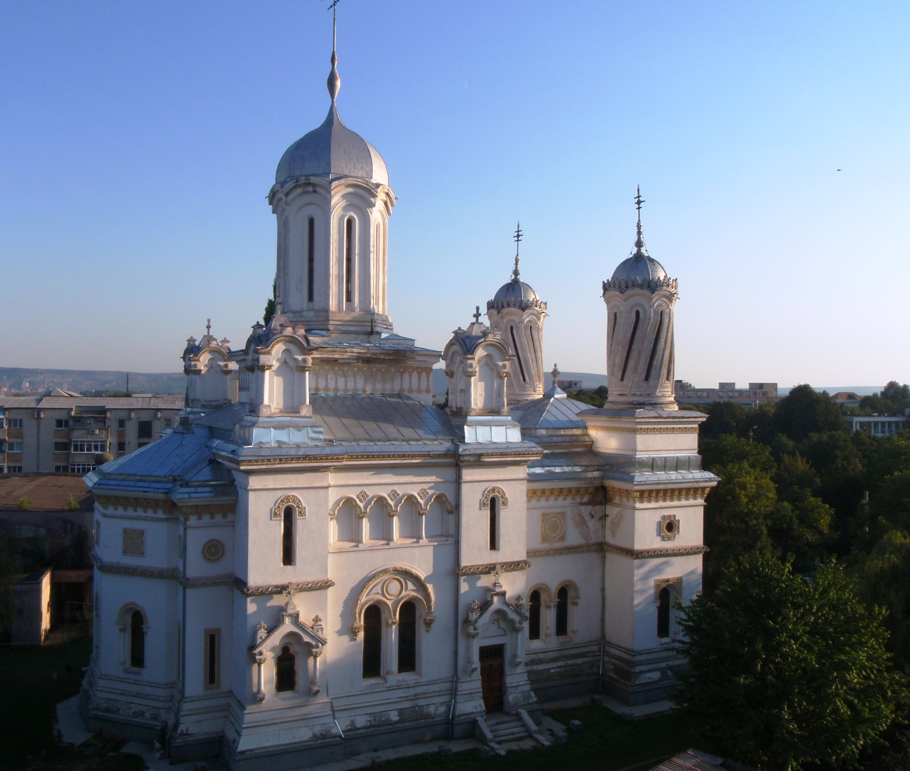 The cathedral of Sfântul (Saint) Haralambie in the city of Turnu Măgurele, Romania